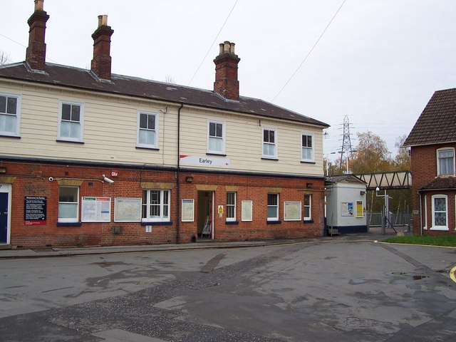 Entrance to Earley Station, near to Woodley, Wokingham, Great Britain.